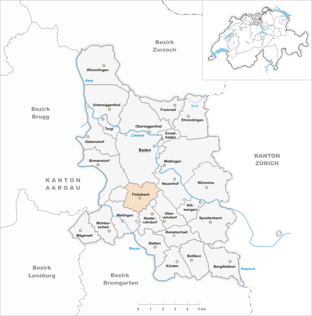 Municipality Fislisbach